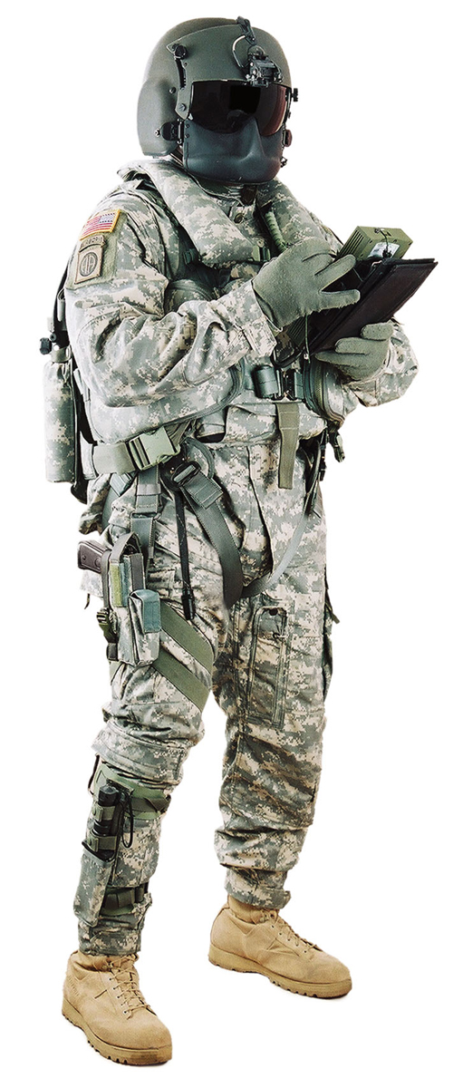 PEO Soldier multimedia of the "Air Warrior"